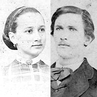 The Rev. William Cullen Wilcox (1850 – 1928) and his wife Ida Belle Clary Wilcox were American missionaries to South Africa. The Wilcoxes started the first co-operative with black South African share holders and as a result they were driven penniless out of South Africa in 1918.